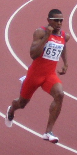 A 200 metres run at the 2005 Athletics World Championships in Helsinki. qualifications - heat 1 (-2.5m/s): 7 lan- 657 Buckland Stéphane MRI 20.94